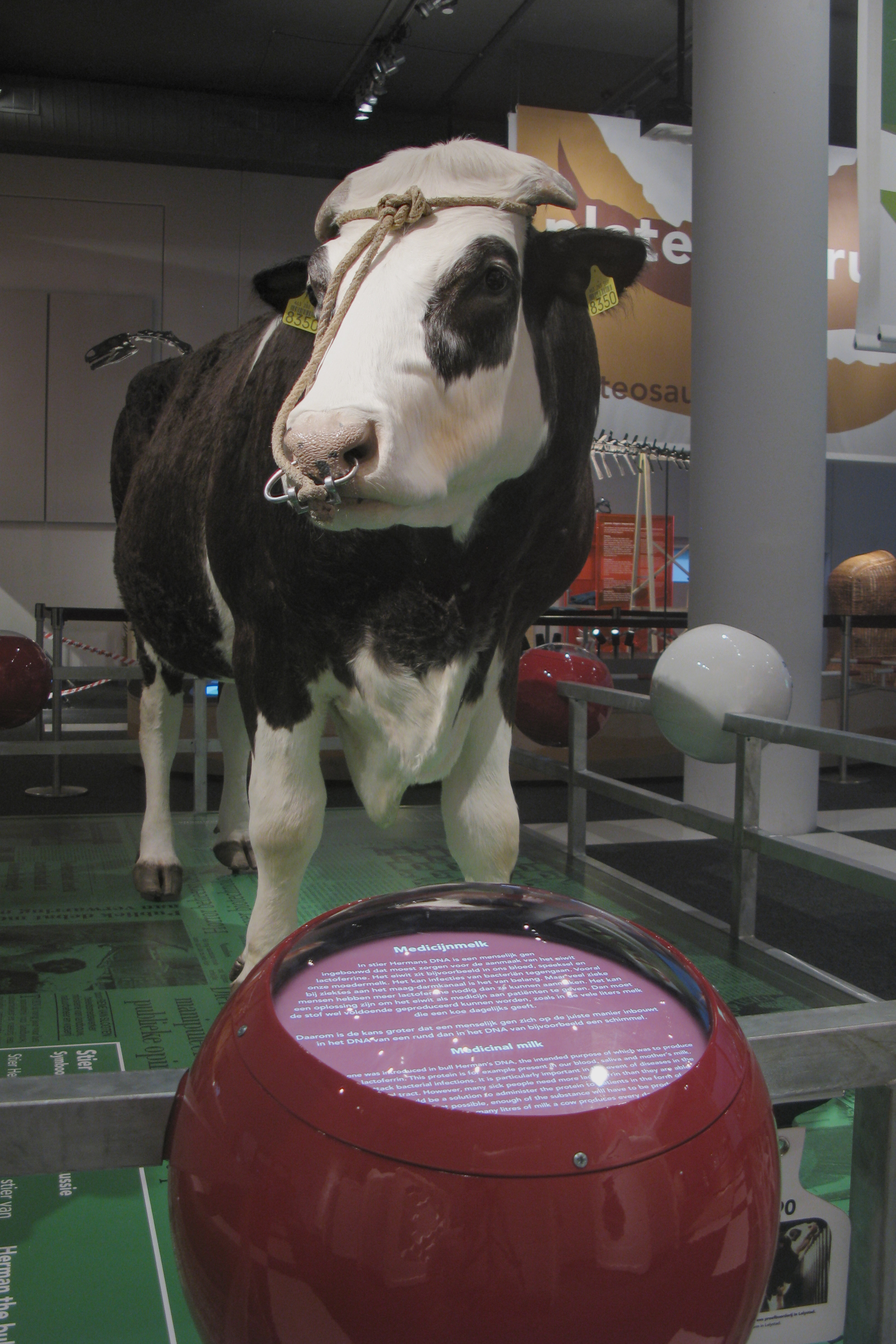 Natural history museum Naturalis, Leiden. Exhibition Research in Progress. Mounted transgenic bull Herman with lactoferrin gene.